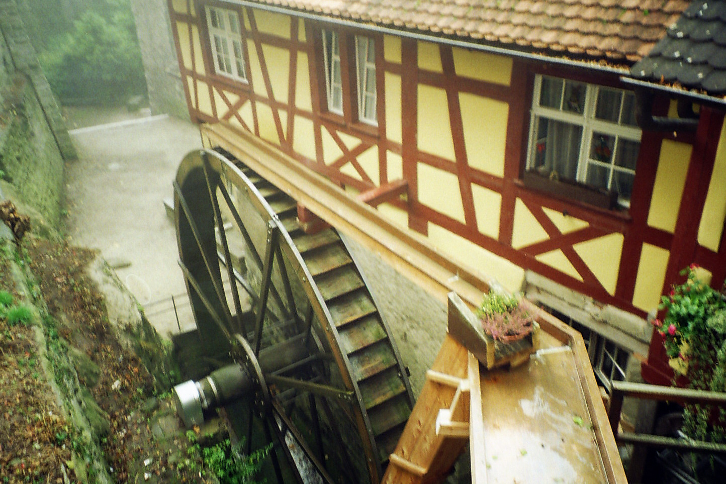 Timbered house near the Altes Schloss, Meersburg, Germany